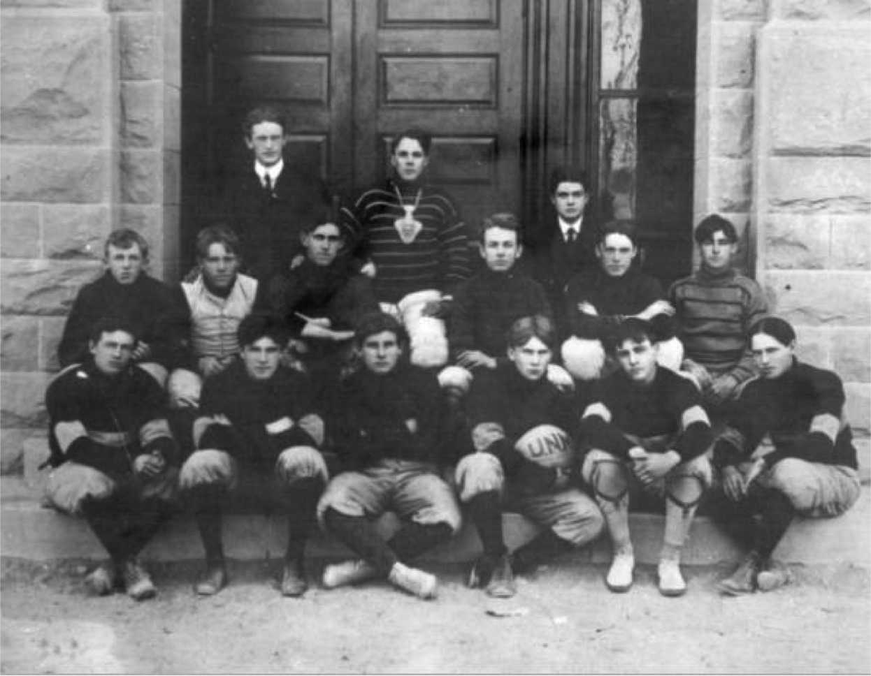 The first basketball team at the University of New Mexico in 1903